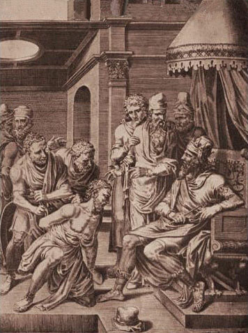 The captive Syagrius is brought before Clovis of the Franks in 487AD.